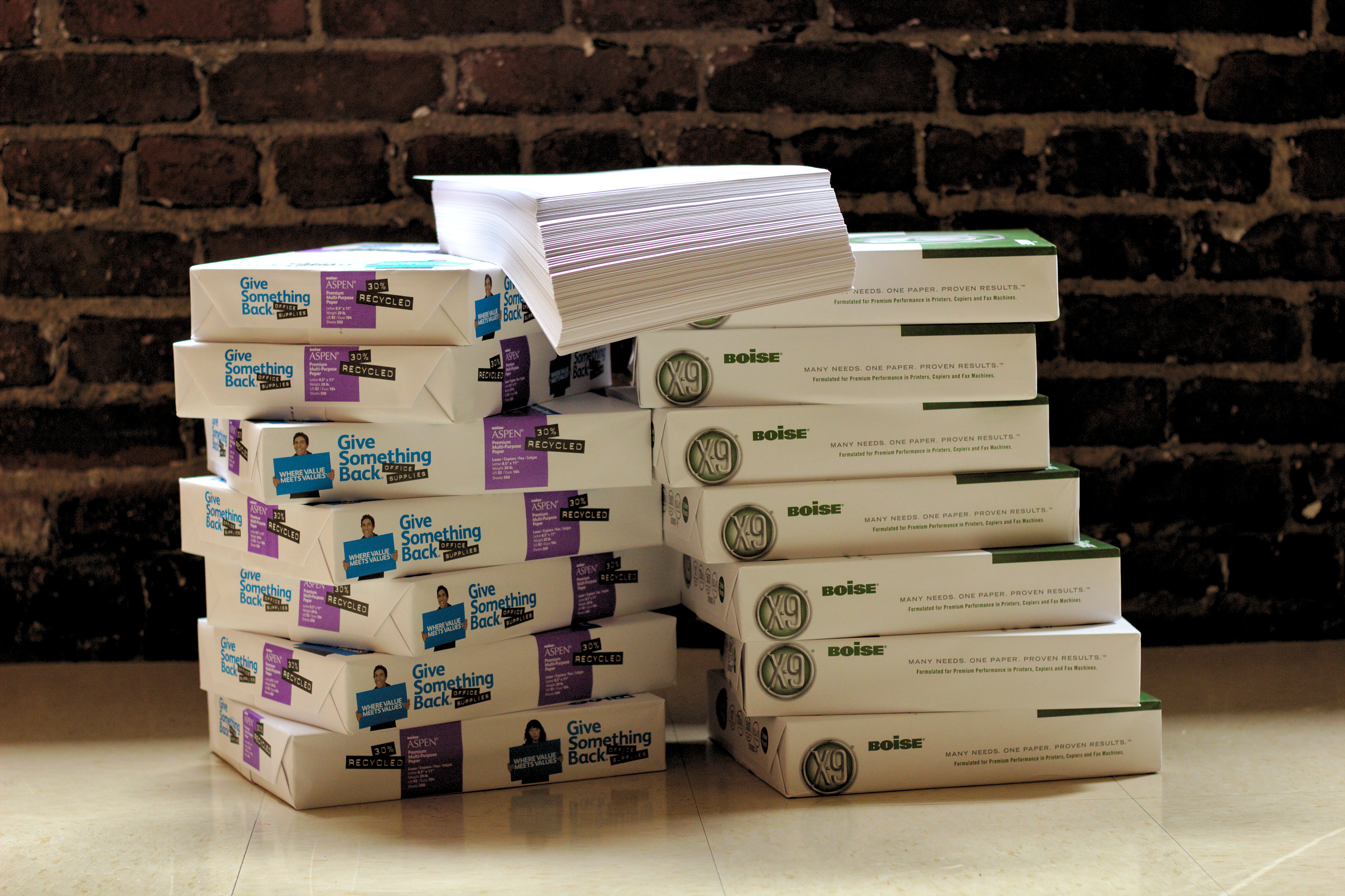 reams of paper, fifteen of them, stacked on the floor in front of a brick wall